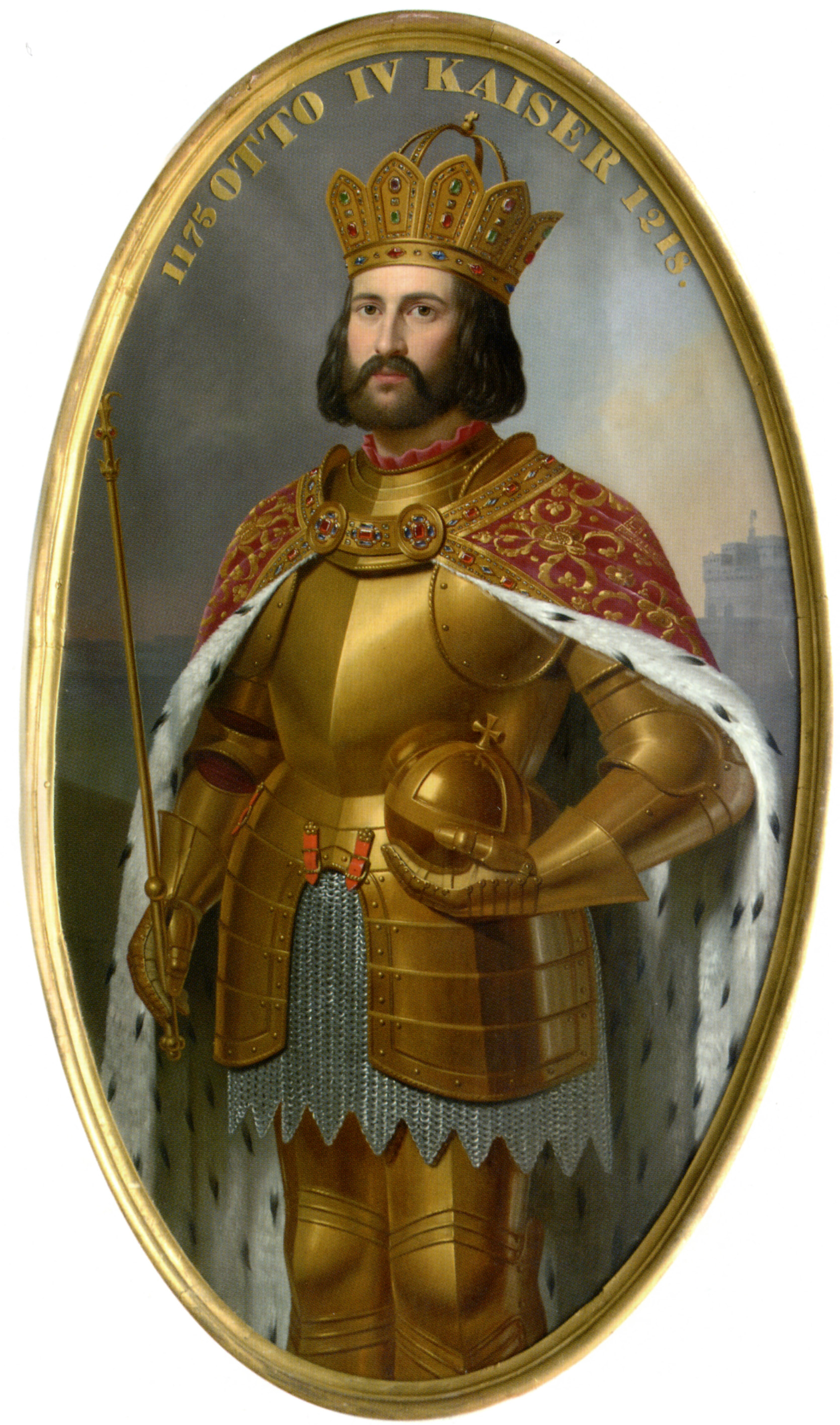 Otto IV, Holy Roman Emperor (ca. 1176-1218)